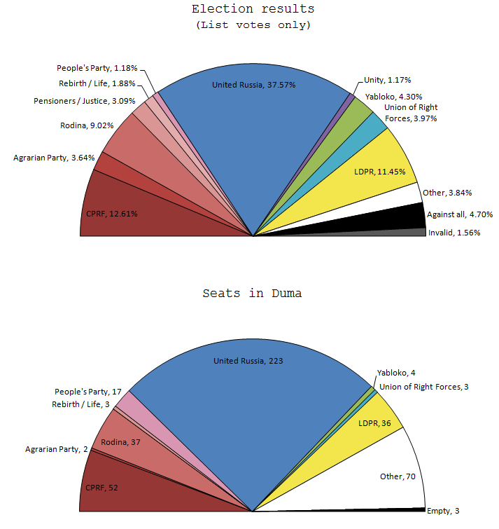 Russian Legislative Election 2003, party colors are arbitrary, party locations are arbitrary